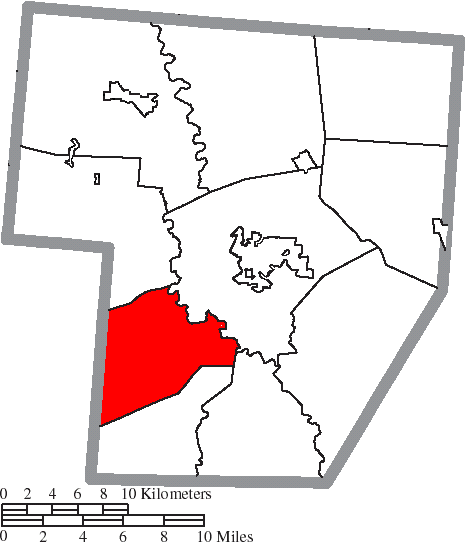 Map of the municipal and township boundaries of Fayette County, Ohio, United States, as of the 2000 census, with the location of Concord Township highlighted. Township borders are shown only in unincorporated areas in order to differentiate incorporated and unincorporated areas more clearly.